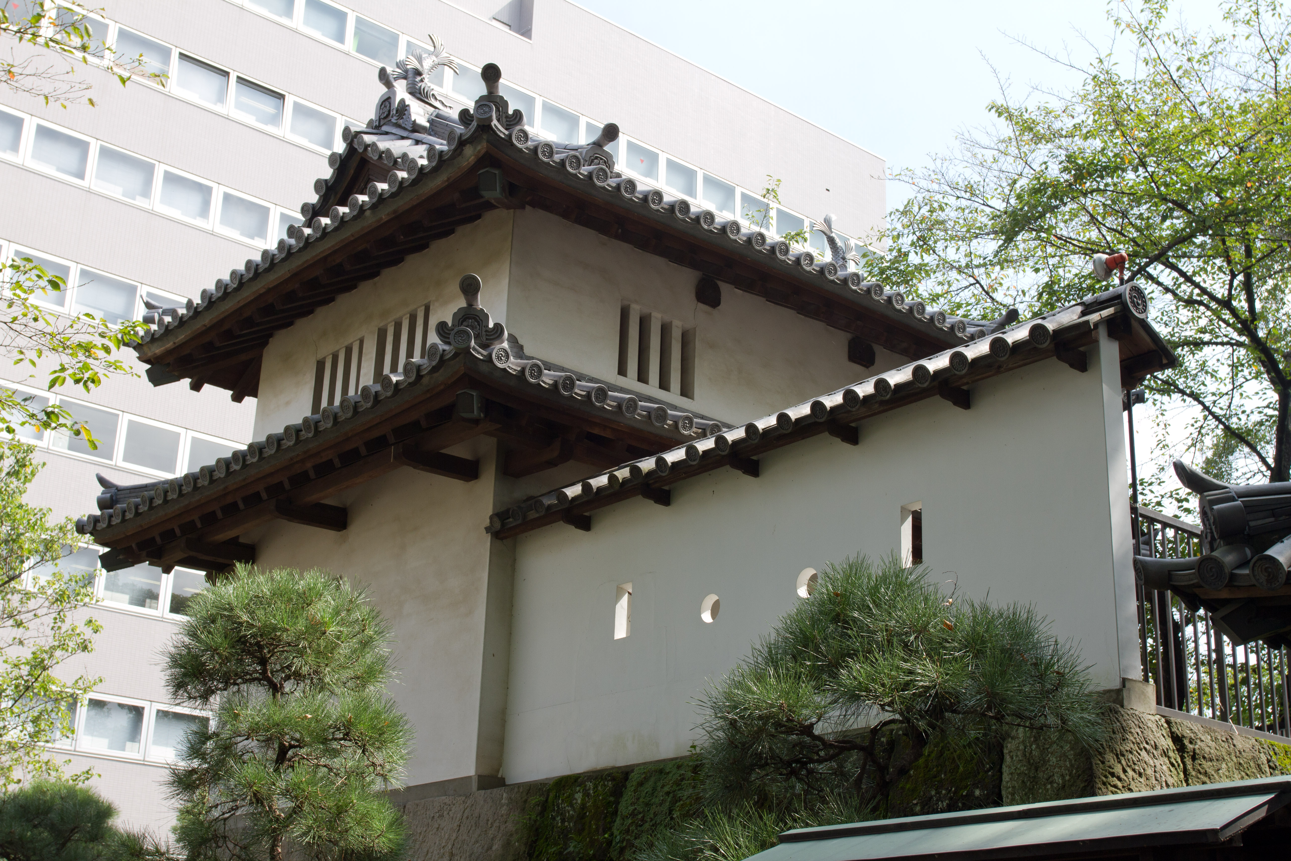 Takasaki Castle, Inui Tower